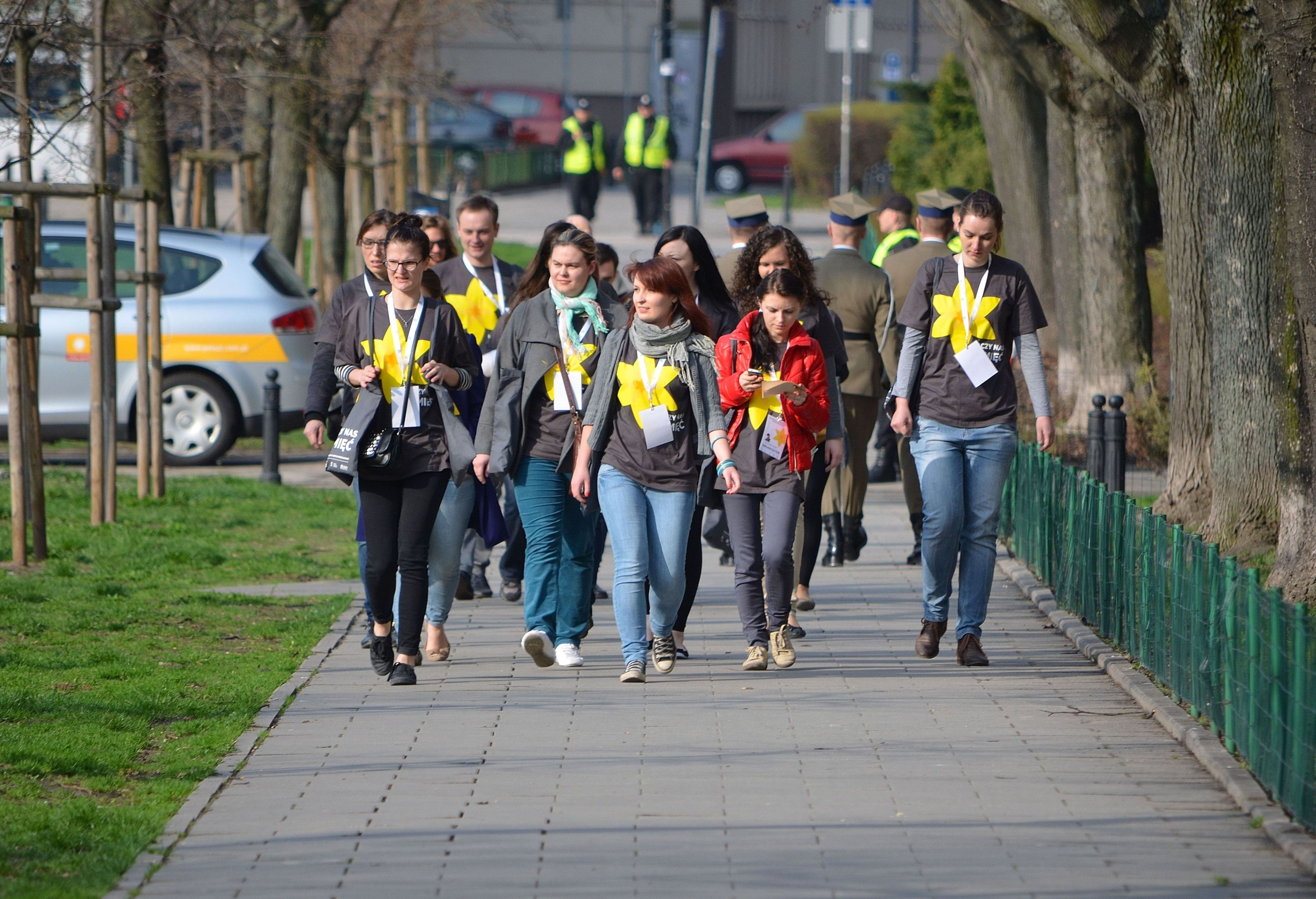 70th Anniversary of the Warsaw Ghetto Uprising - a group of volunteers in Lewartowskiego Street in Warsaw